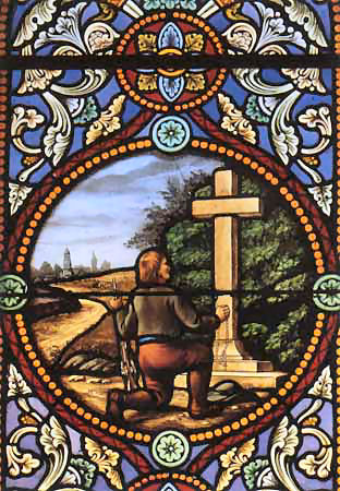 Stained glass window of the Chappel of the Martyrs of Saint-Martin-des-Tilleuls, showing a Vendéan peasant praying in front of a cross before a battle.